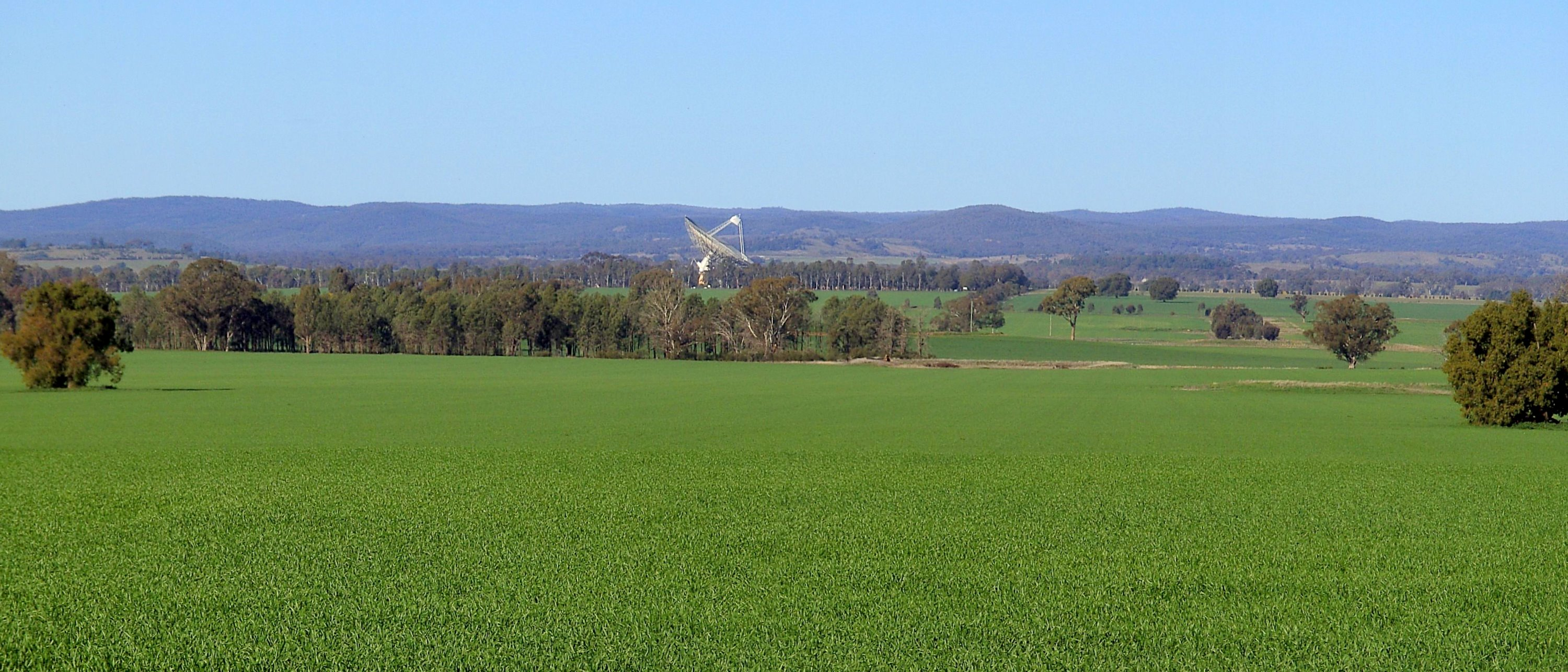 The landscape dwarfs 'The Dish' of the Parkes Observatory, New South Wales, Australia. View from the Newell Highway.